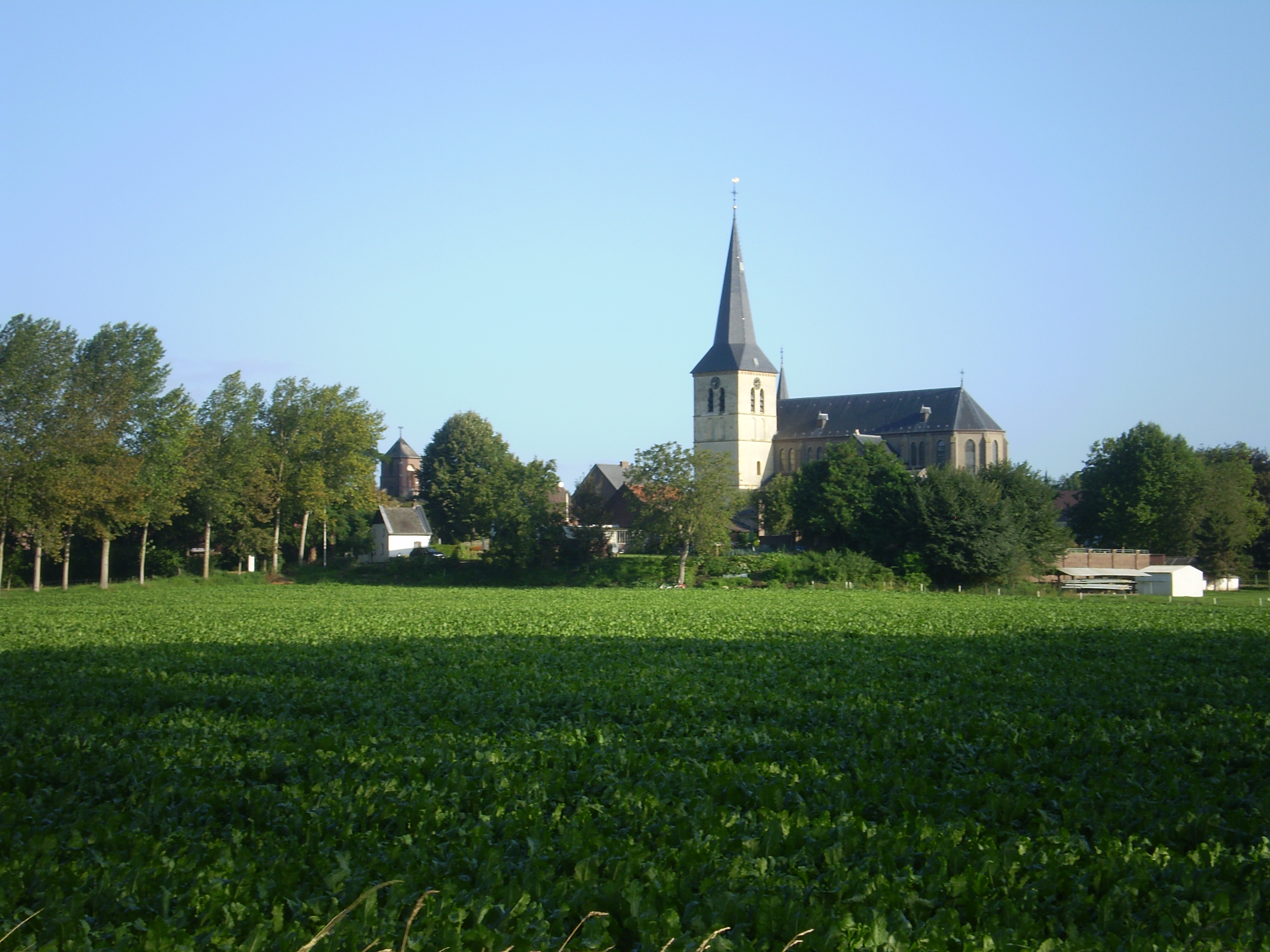 Historical center of Kessenich (Belgium), with its church and its motte